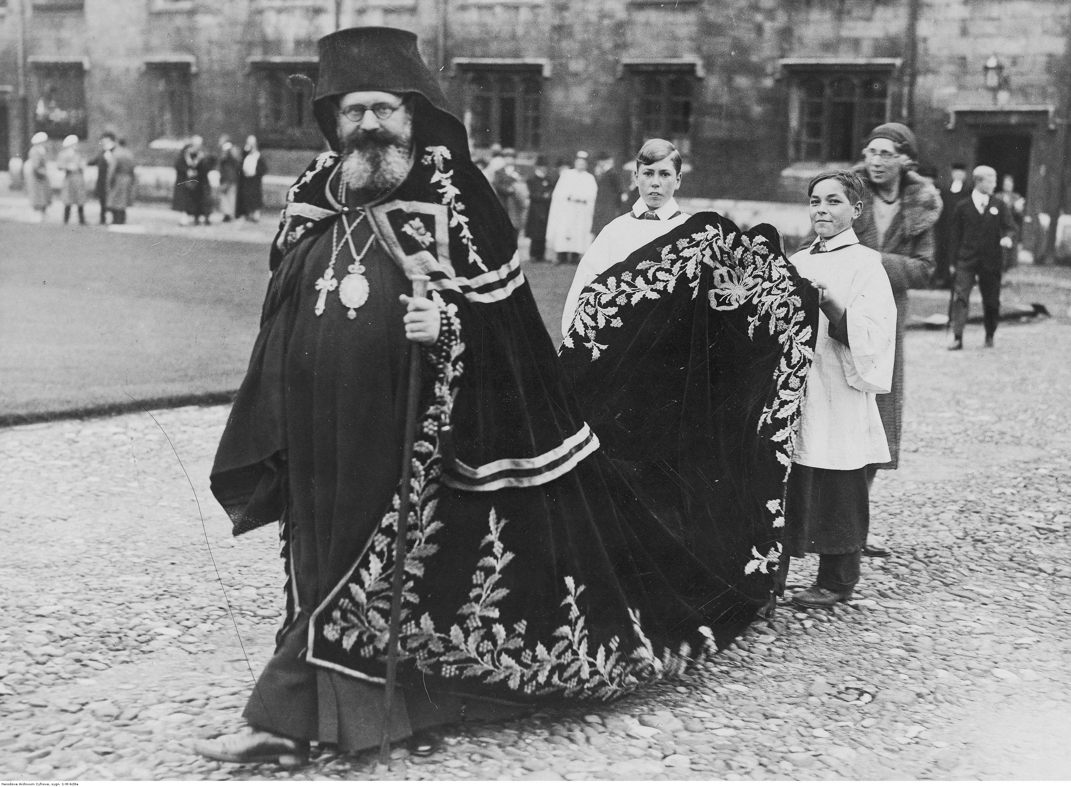 Metropolitan Stephen, head of the Bulgarian Holy Synod, coming to an ecumenical conference in Cambridge